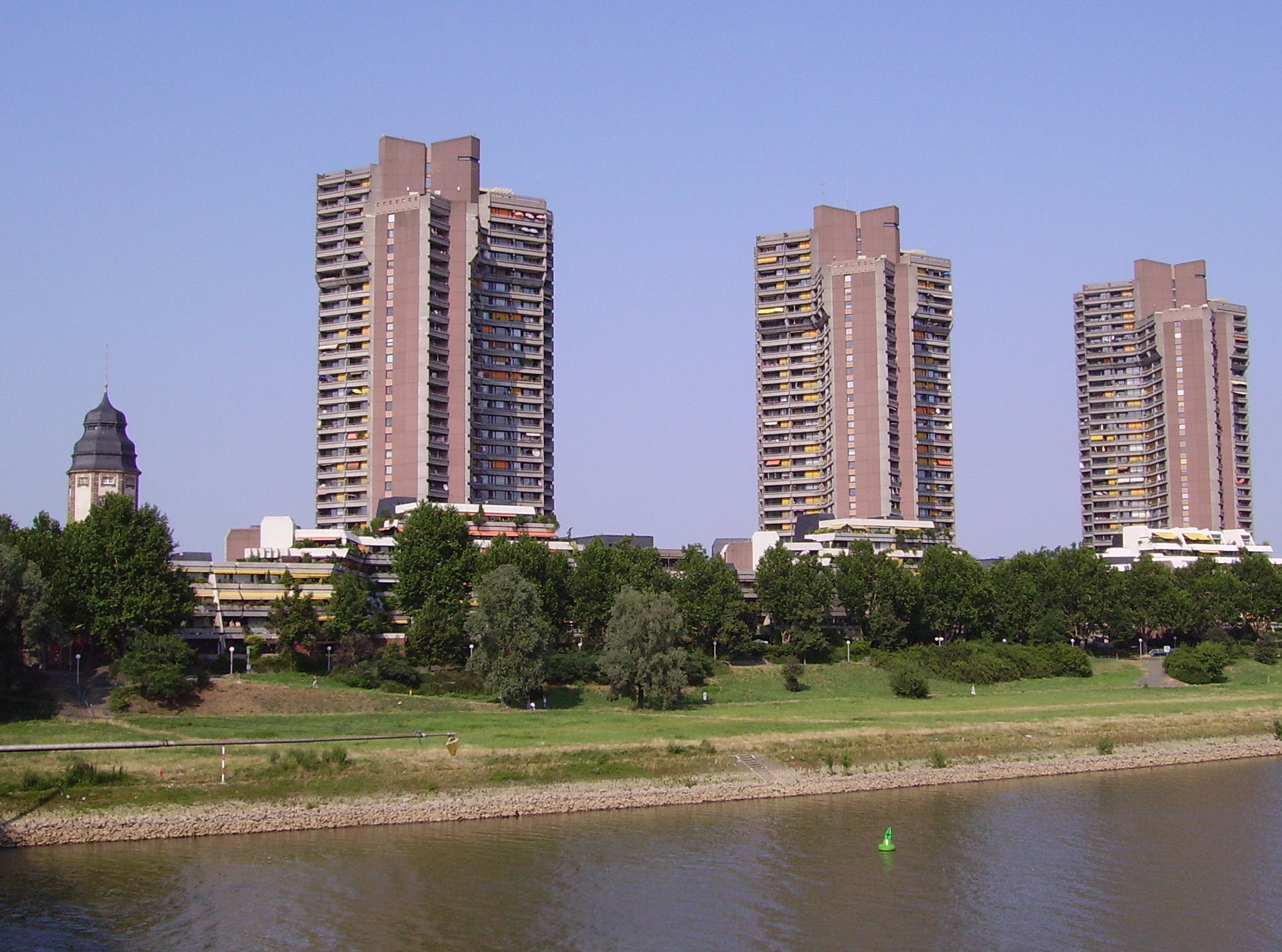 view of Mannheim, Germany